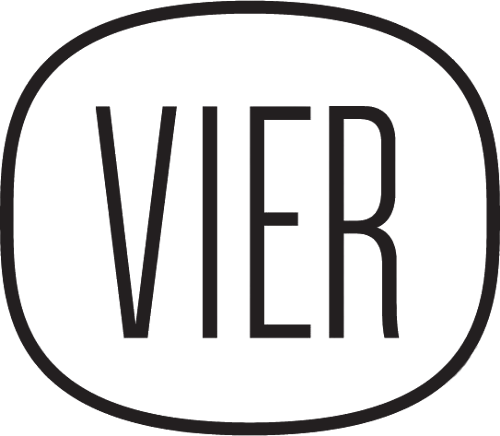 Logo of Flemish Belgian channel VIER (Four)